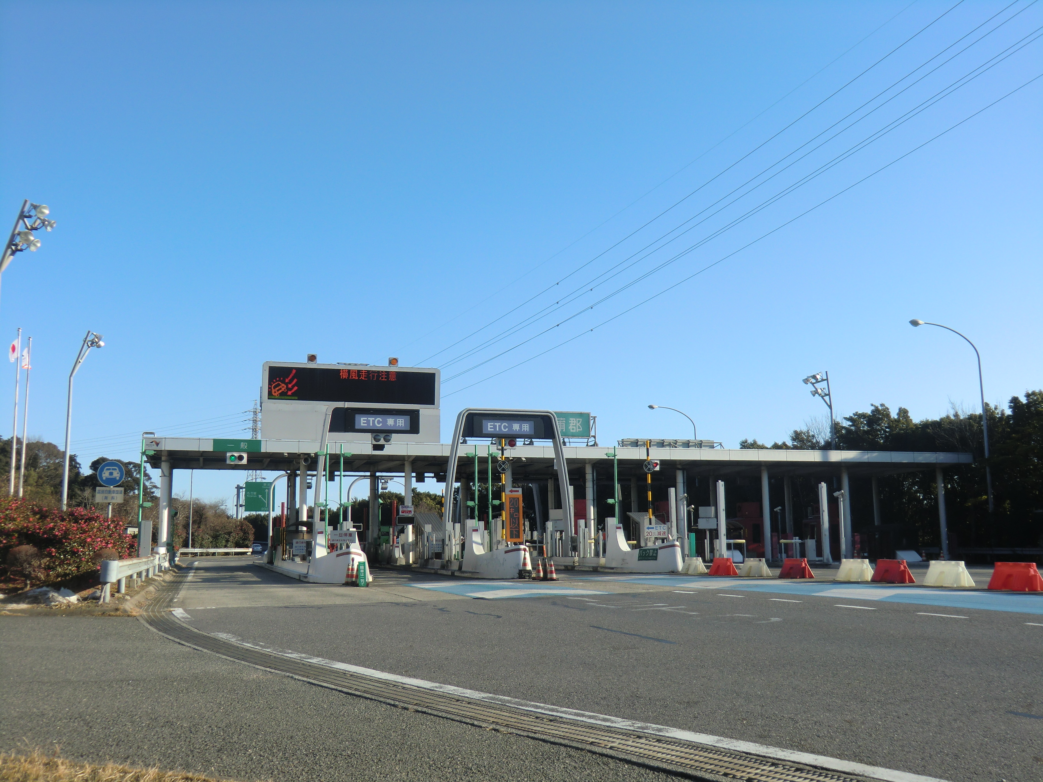 Tomei Expressway Otowa-Gamagori Interchange (音羽蒲郡インターチェンジ), located in Toyokawa, Aichi, Japan